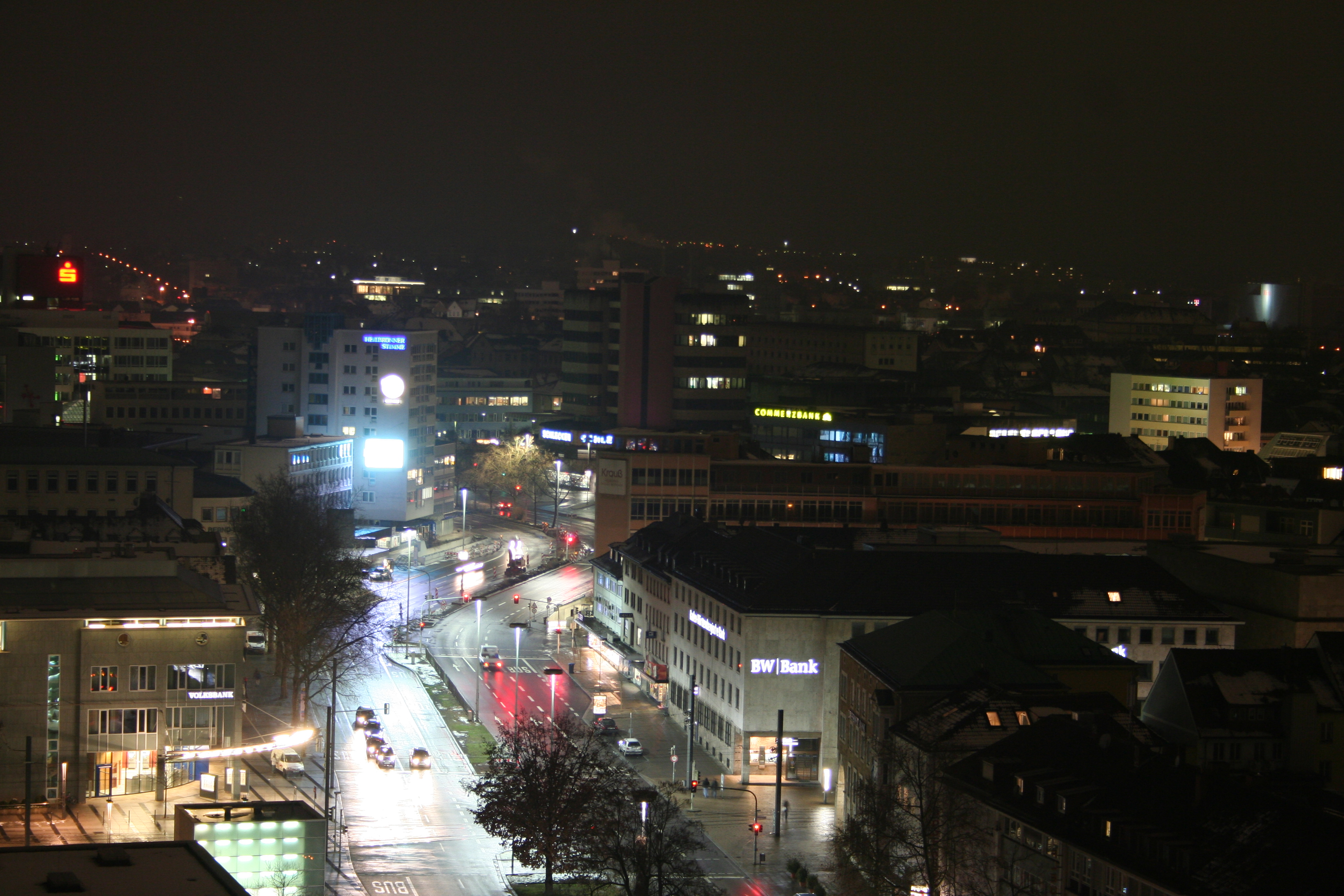 The Allee road in Heilbronn at night